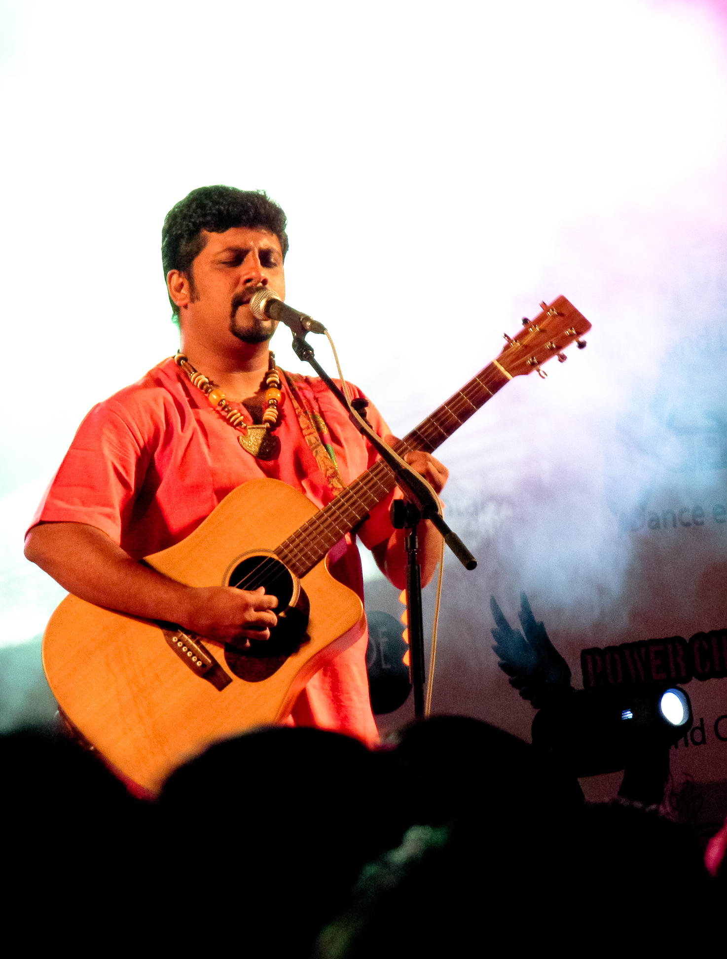 Raghu Dixit of The Raghu Dixit Project in concert at IISc, Bangalore